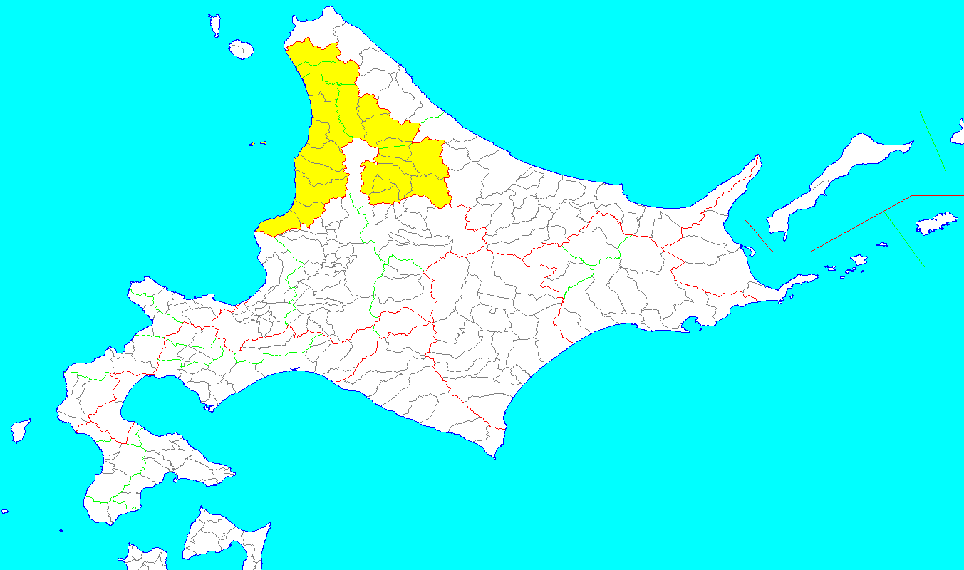 area of Teshio provinces of Hokkaido in Japan(1869/08/15)